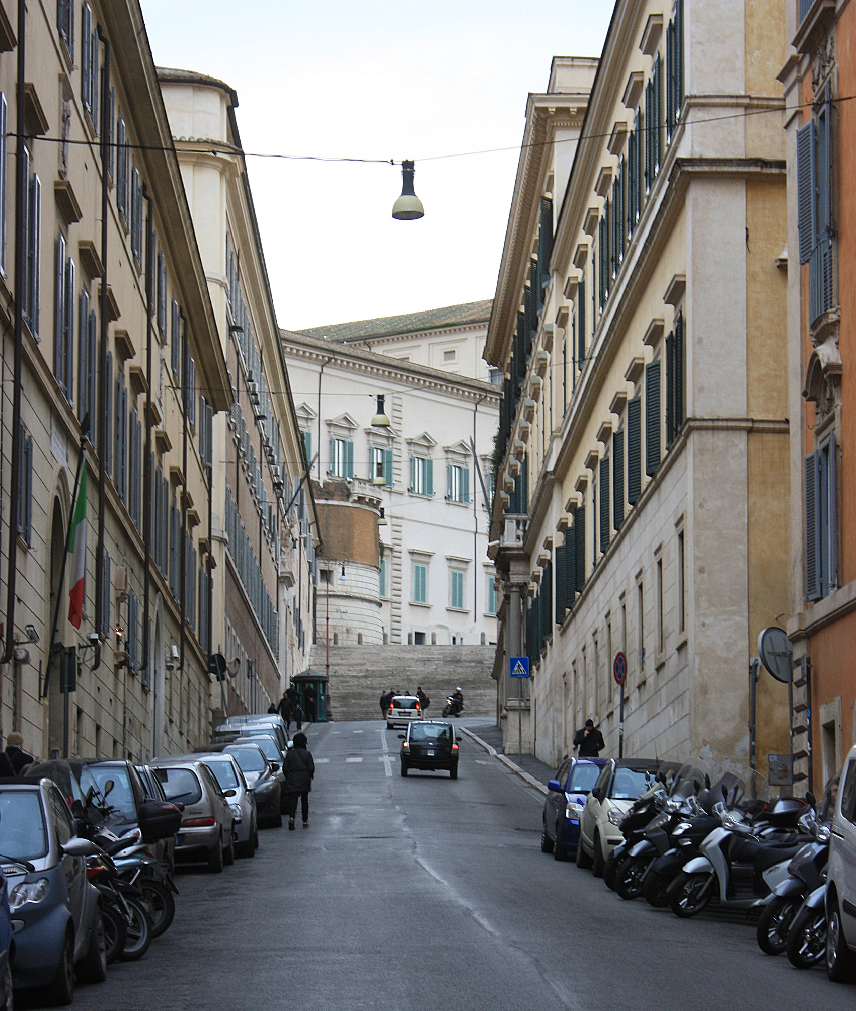 Rome, the street Via della Dataria